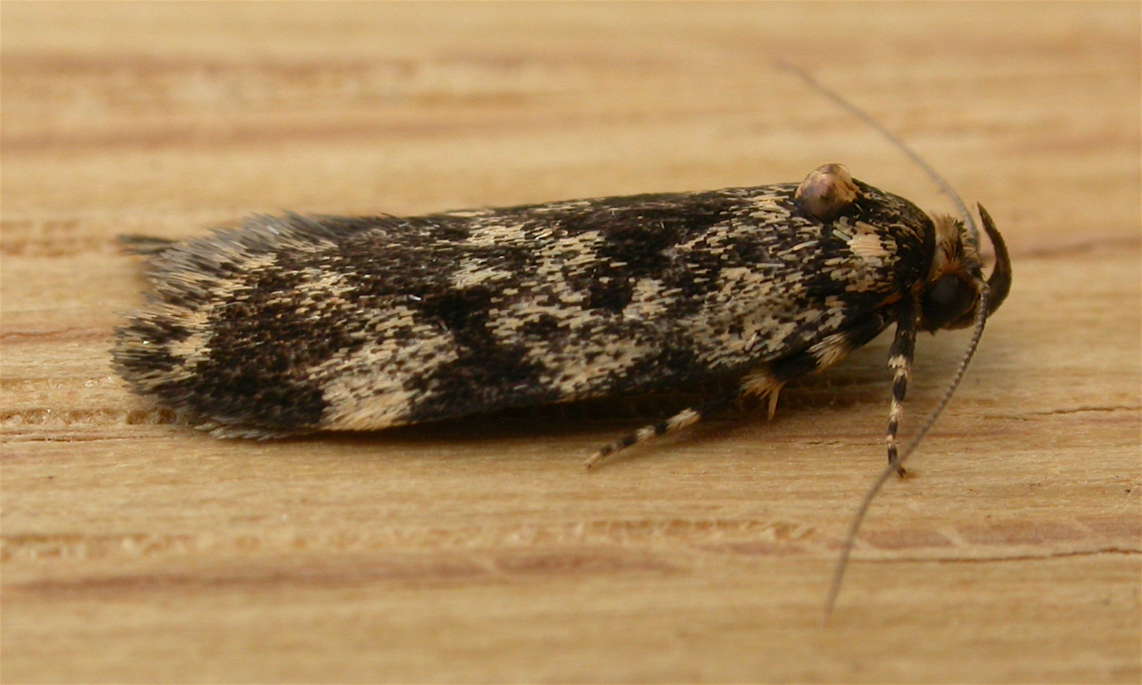 Barea codrella (R. Felder & Rogenhofer, 1875). Image taken at Aranda, Canberra (Australia).